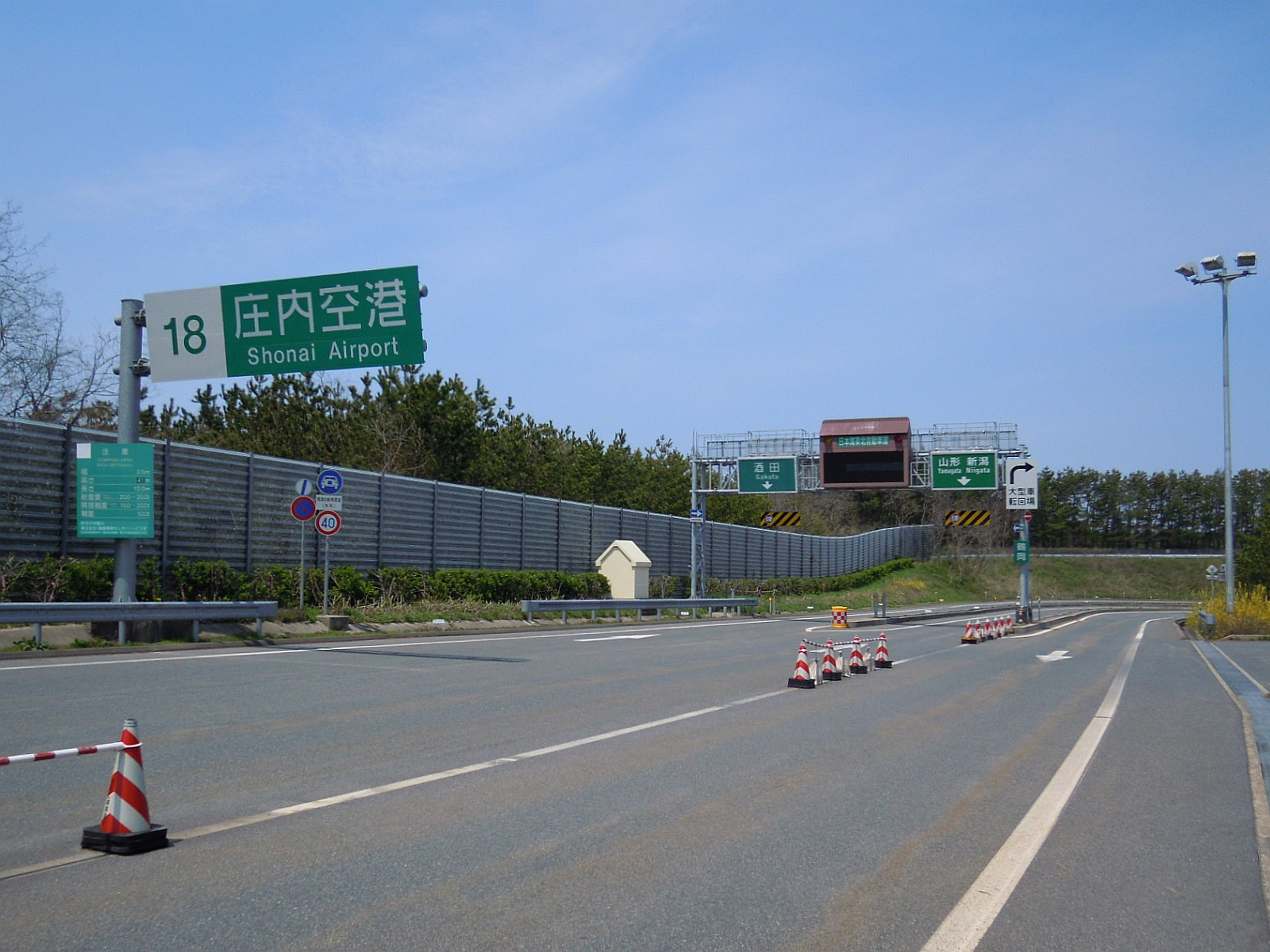 This Interchange, Shonai-Airport Interchange, is on Nihonkai-Tohoku Expressway, in Sakata City, Yamagata Prefecture, Japan.